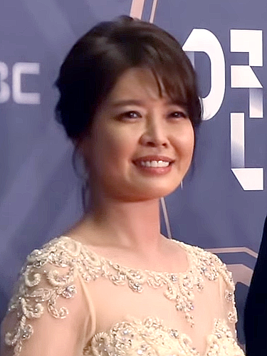 Kim Yeo-jin, in 2018 MBC Drama Awards